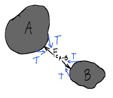 Conceptual sketch of free body diagram of capillary tension and associated interparticle contact forces. The image is meant to accompany WetParticles.jpg.